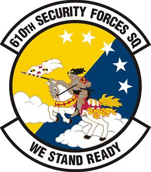 This is the emblem used by the 610th Security Forces Squadron.